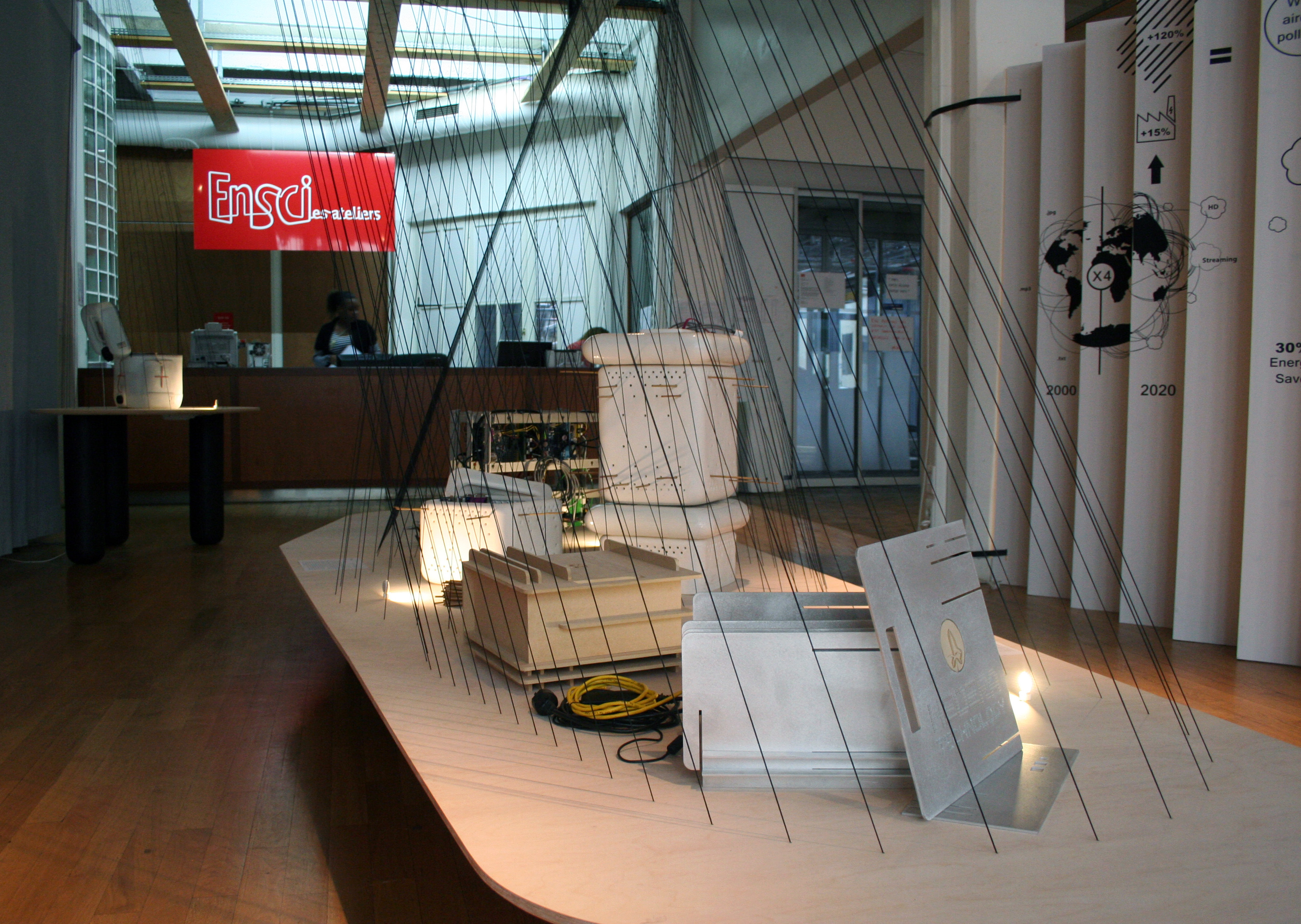 Futur en Seine exhibition at ENSCI-Les Ateliers.